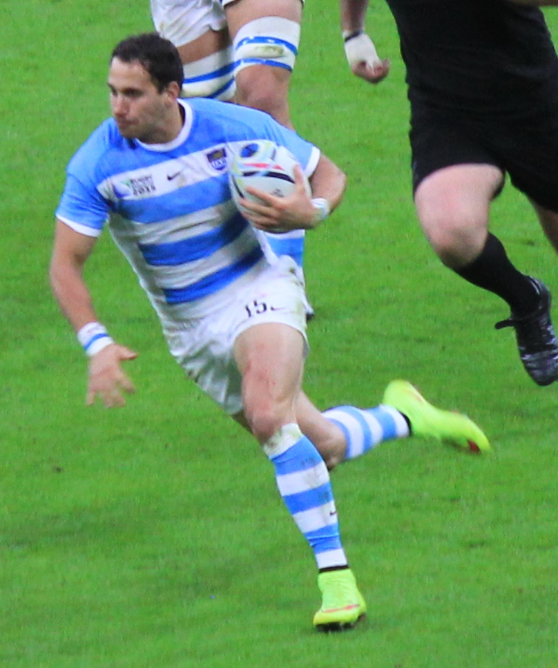 15-09 RWC New Zealand vs Argentina 067